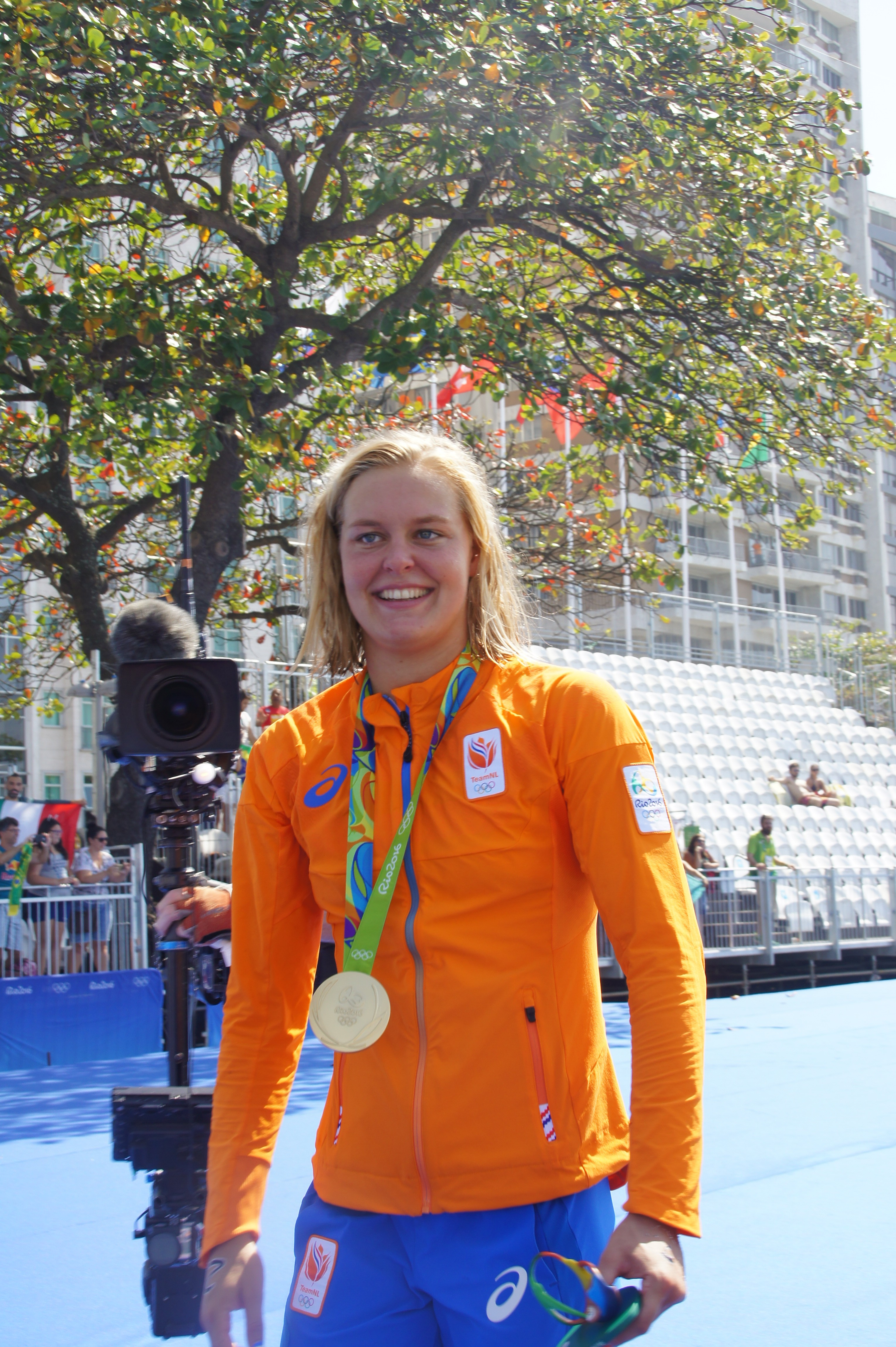 Medalha de ouro/Gold medalist: Sharon van Rouwendaal. Holanda/Nethertlands slt.a33 Marathon swimming Netherlands